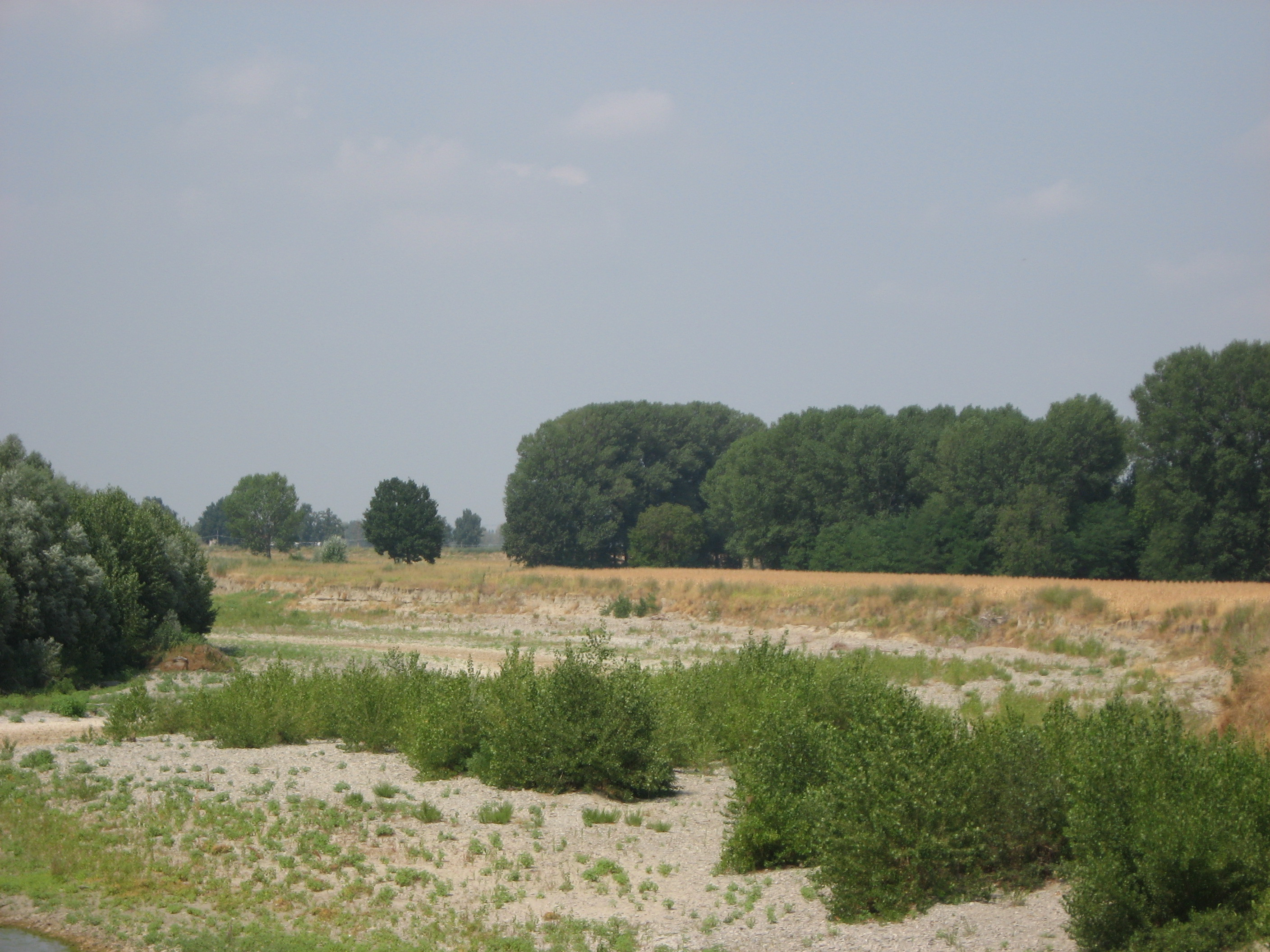 Taro river